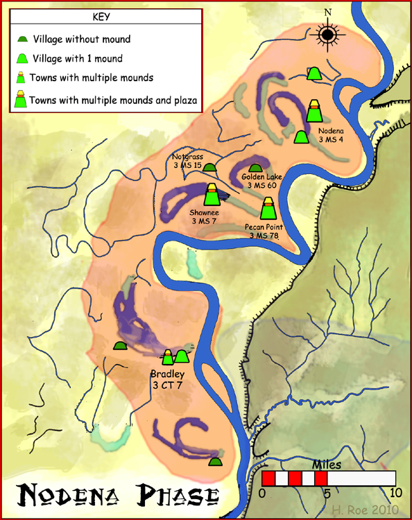 A map showing the Nodena Phase, a Mississippian cultural component, and its associated sites in Arkansas.